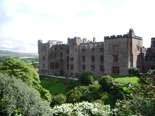 North east front of Muncaster Castle